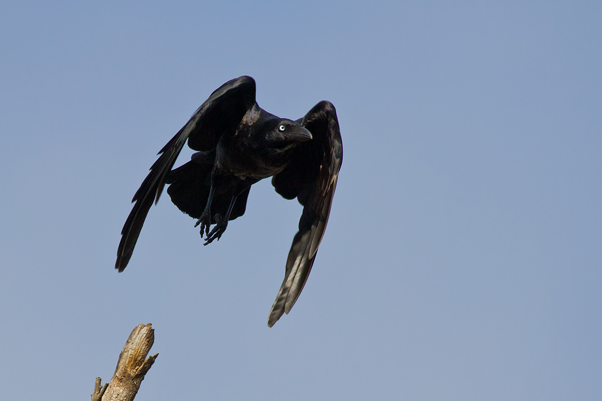 An Australian Raven in Victoria, Australia.